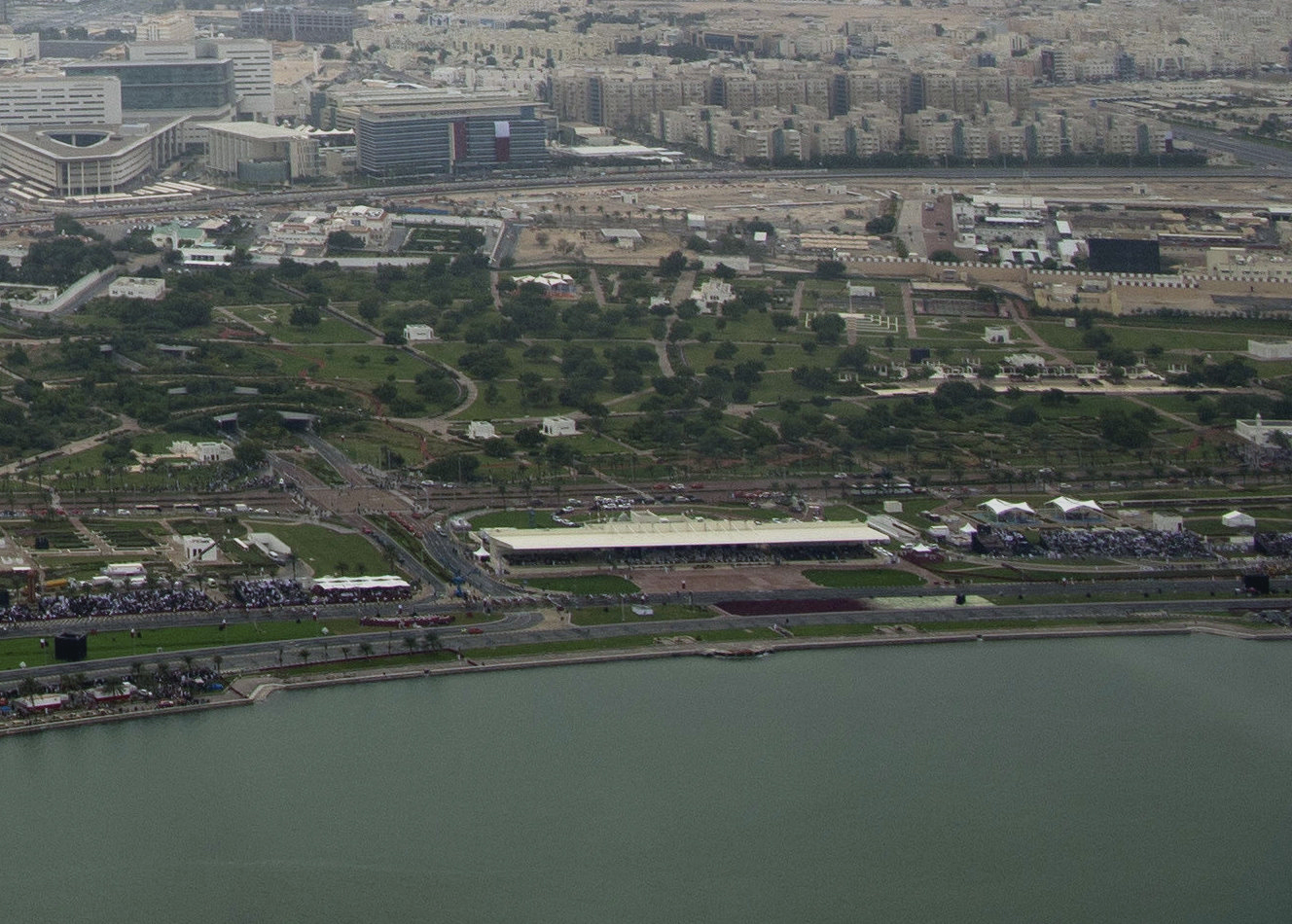 A U.S. Air Force F-15E Strike Eagle assigned to the 494th Expeditionary Fighter Squadron, conducts a formation fly over honoring Qatar National Day, Doha, Qatar Dec. 18, 2019. Qatar National Day is an annual holiday for Qataris to commemorate their national identity and history, and allows them to remember how their national unity was achieved. This year’s Qatar National Day celebration included a parade featuring massive fire work displays, military aircraft flyovers, and many other demonstrations of national unity. (U.S. Air Force Photo by SSgt Bethany La Ville)